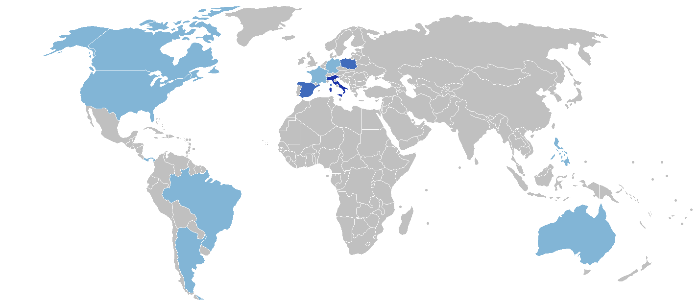 This is a map of countries which took place on World Day teens